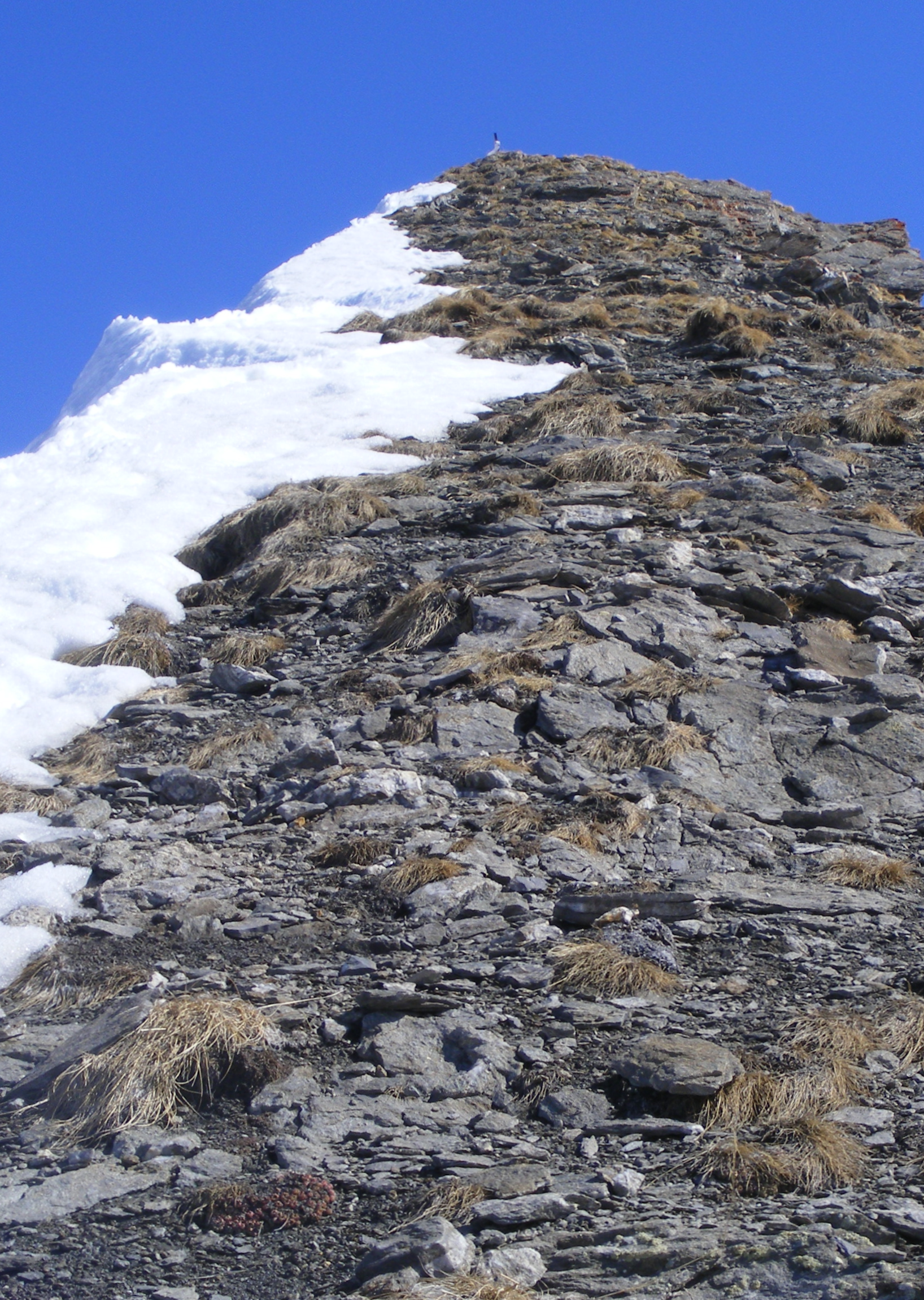 South ridge of the Cima Dorlier (Cottian Alps, Italy)